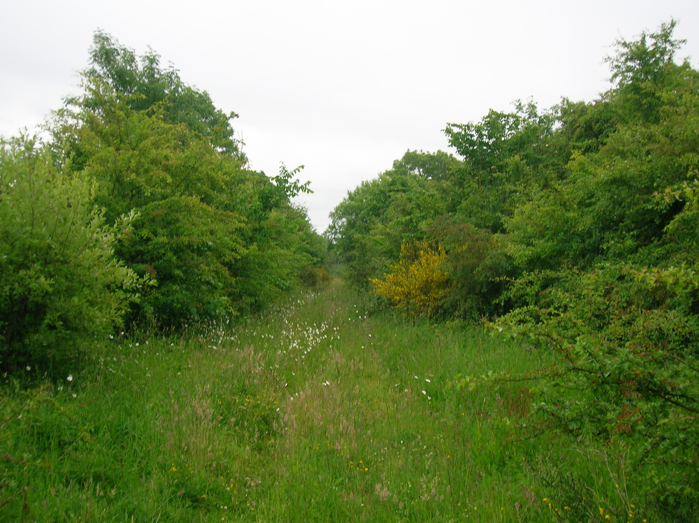 The old railway trackbed near Annick Viaduct, Ayrshire, Scotland.